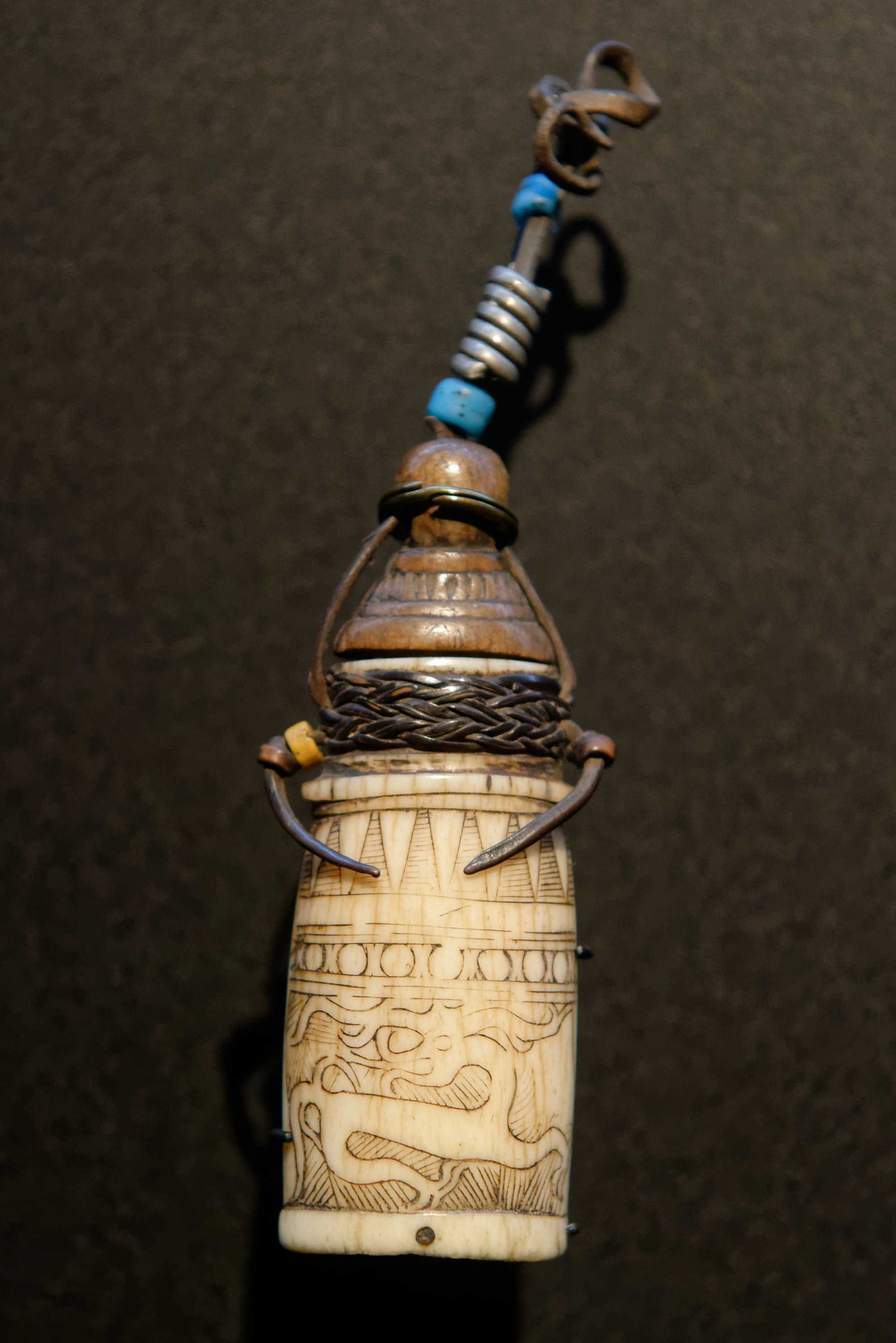 Small belt accessory: needle case. Nivkh or Evenki people, Amur river basin, Federation of Russia.